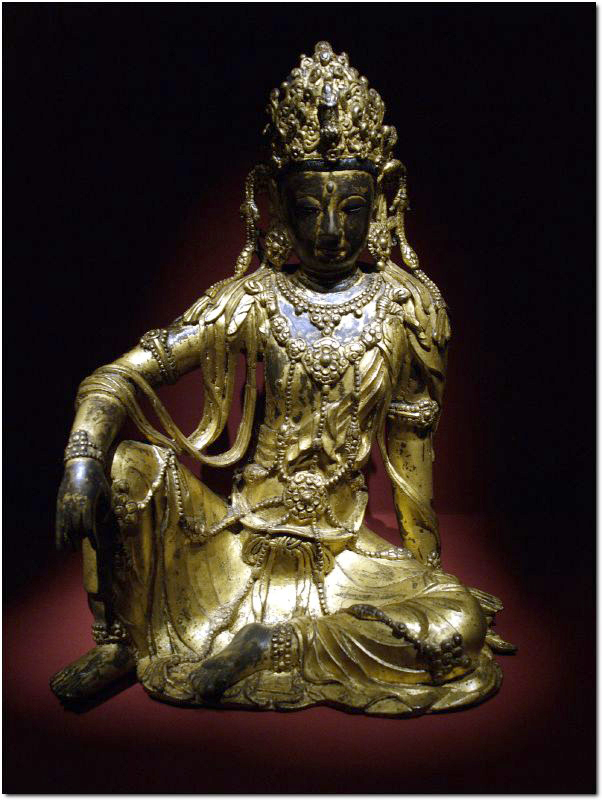 Bodhisattva Avalokitesvara. Gilt-bronze. Goryeo. Late 14th c. H. 38.5 cm. National Museum of Korea.